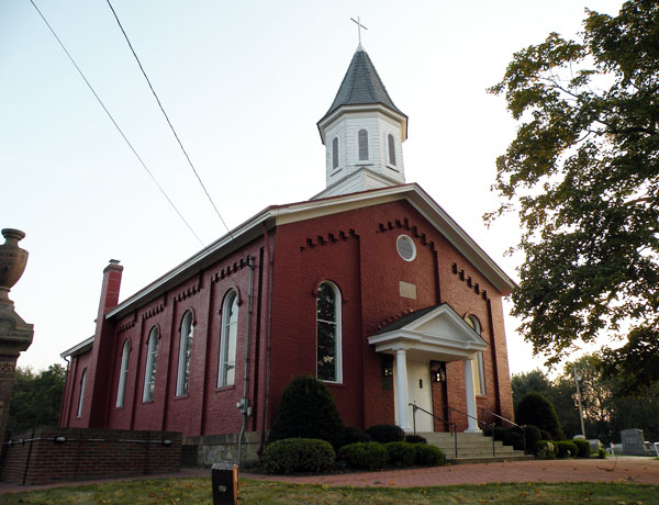 Picture of the Trinity German Evangelical Lutheran Church located at 2500 Brandt School Road in Franklin Park, Pennsylvania, on September 23, 2010. Built in 1868, the church is on the List of Pittsburgh History and Landmarks Foundation Historic Landmarks. A stone marker in German is located over the front entrance. On pages 191 and 192 in James D. Van Trump and Arthur P. Ziegler, Jr.'s book Landmark Architecture of Allegheny County (1967, Pittsburgh History and Landmarks Foundation, Pittsburgh, Pennsylvania, LCCN) it lists this church as the "German Evangelical Lutheran Church" and describes the architectural style as "Mid-Nineteenth Century Eclectic Vernacular". It goes on to say, "This is a red brick gabled structure with white trim. It is a hall church and has round topped windows, brick corbeling, pilasters, and a modern Classical porch. There is small white cupola on the front gable." Not far from the church, a historical marker for the Kuskusky Path says the following: "Kuskusky Path - Hunters, traders, warriors, militia, war captives, and diplomats all used this early Native American path, which passed this location, for most of the 1700s as part of a regional network of trails. It provided a direct route between Fort Duquesne/Fort Pitt, a major trade center, and the Delaware Indian community of Kuskusky, now New Castle. Europeans who began moving into the area built homes and churches adjacent to the path by 1800. Pennsylvania Historical and Museum Commission 2008".